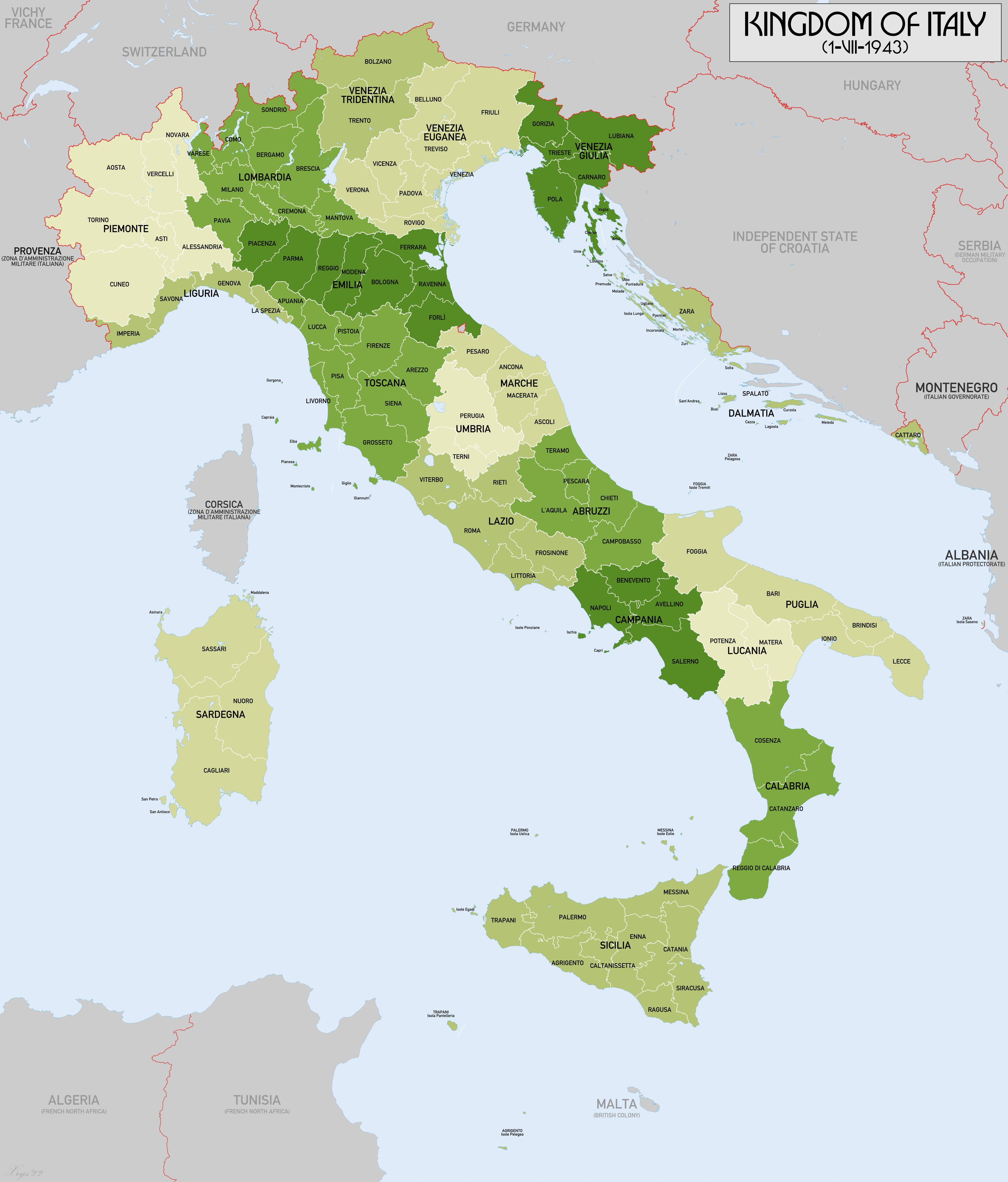 Administrative map of the Kingdom of Italy on 1-VII-1943. showing regions and provinces. Source data: Italy 250k (AMS 508), Italy 100k (GSGS 4164), Italien 100k (Deutsche Heereskarte) courtesy of